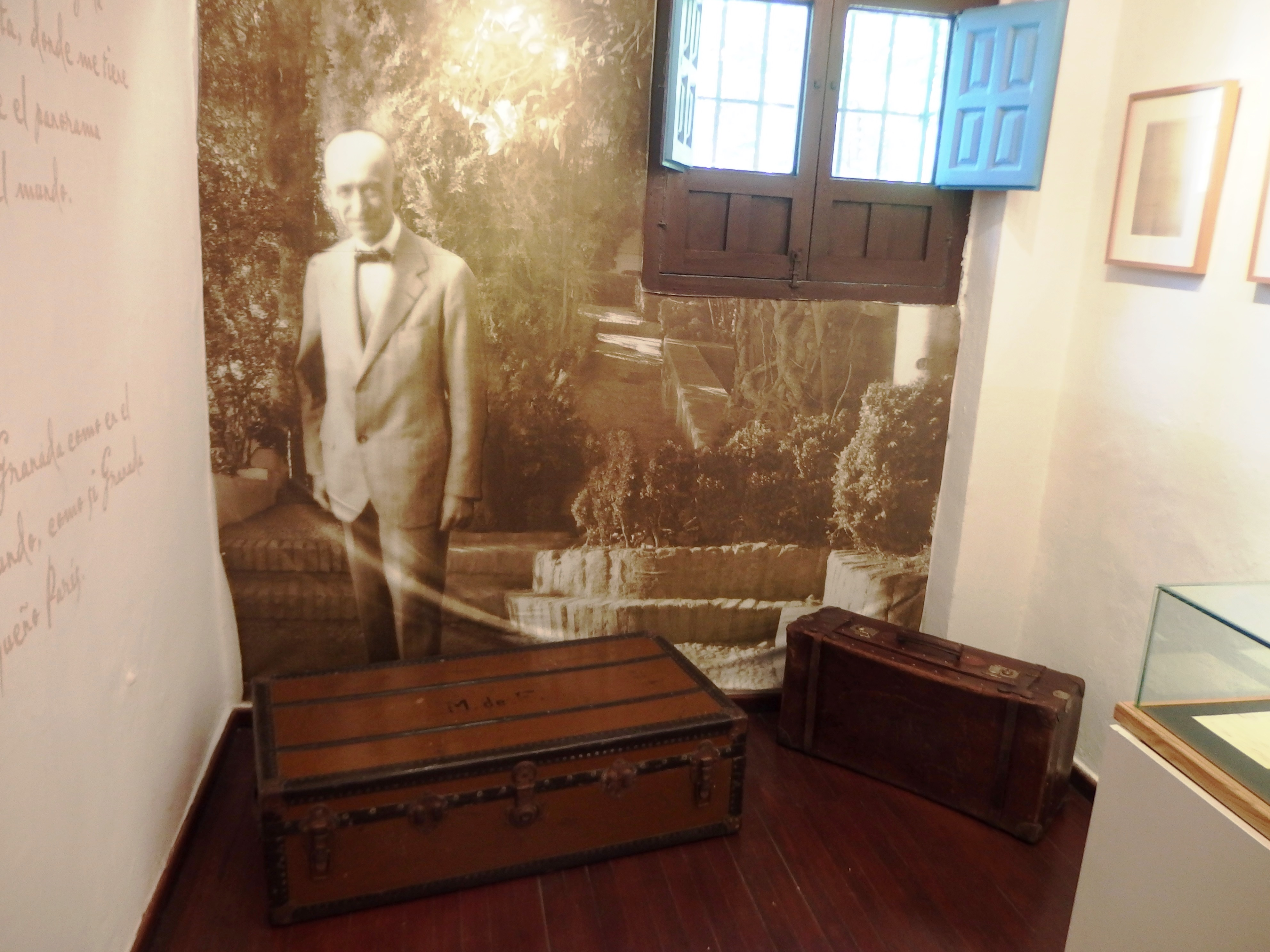 Granada, Spain. Manuel de Falla House Museum.